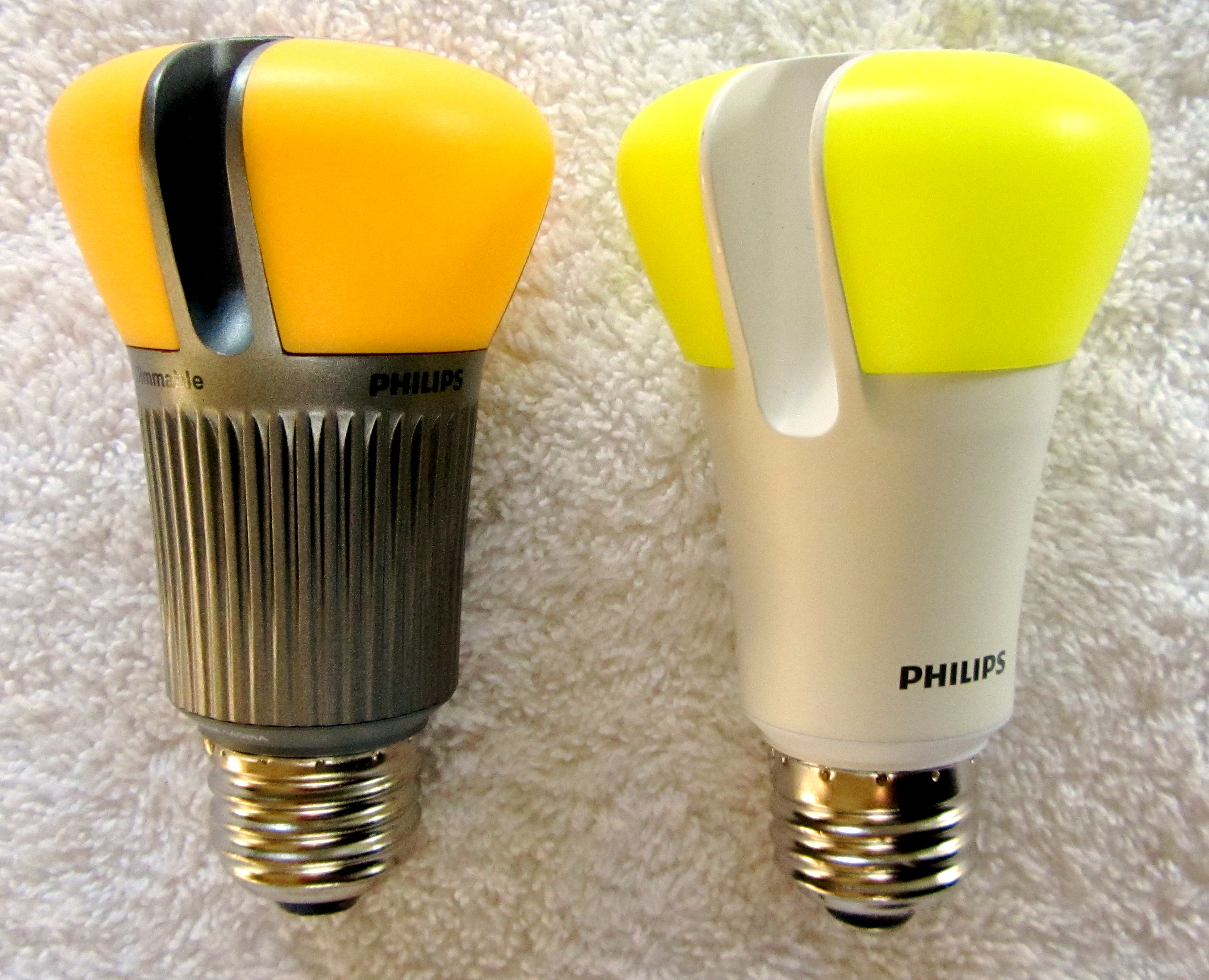 Two consumer LED (light emitting diode) light bulbs from Philips. The high-efficiency "L-prize" bulb is on the right. Photo by Geoffrey A. Landis.